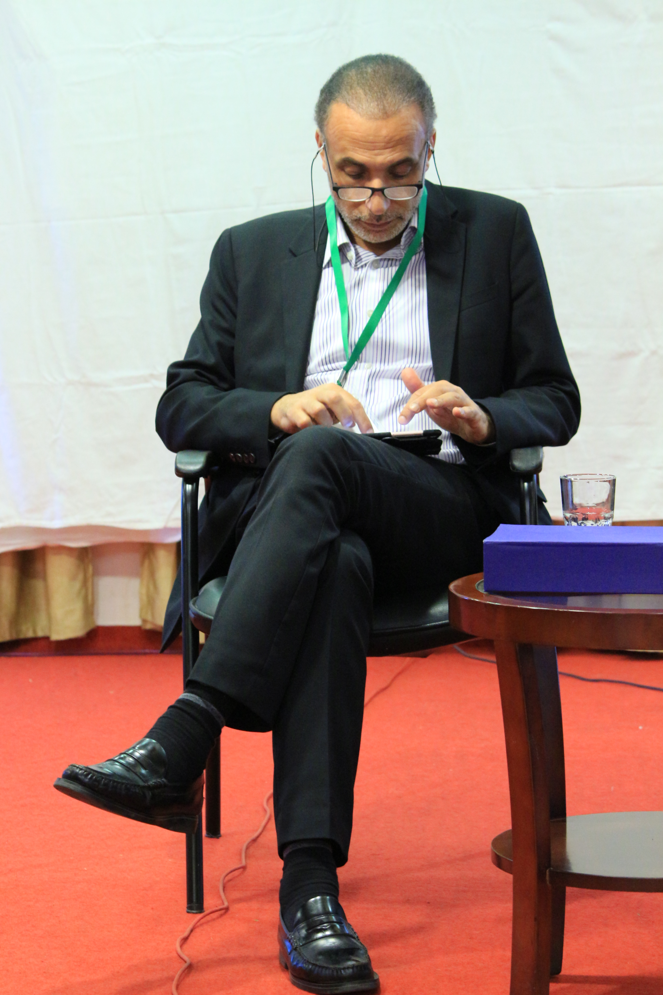 from a conference